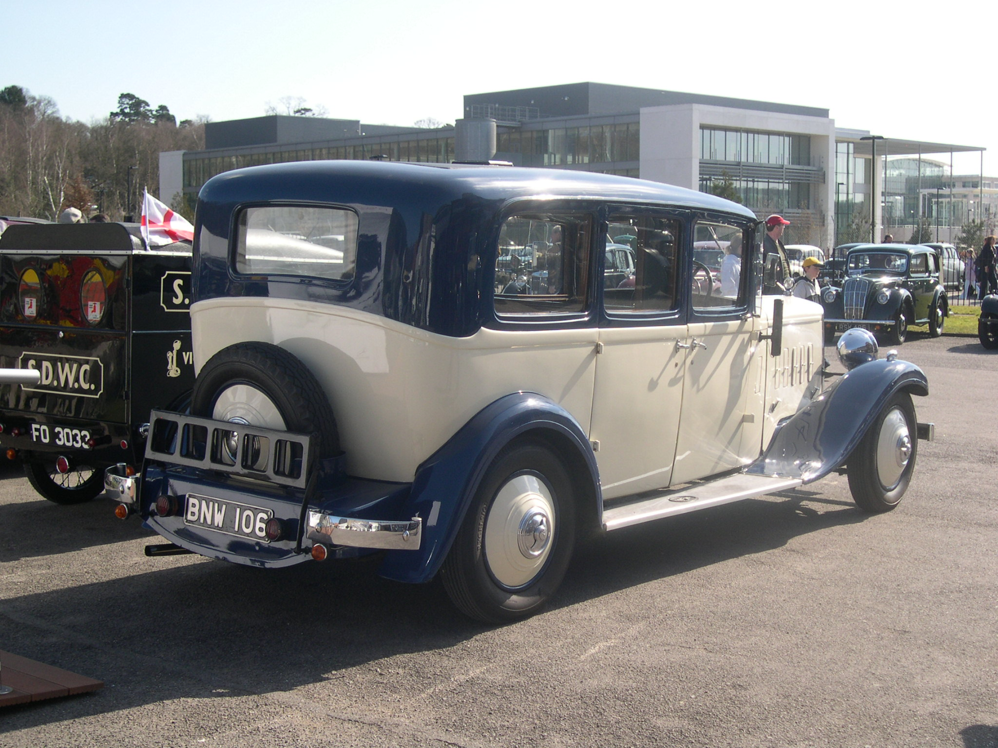 Austin 20/6 Ranelagh 1935